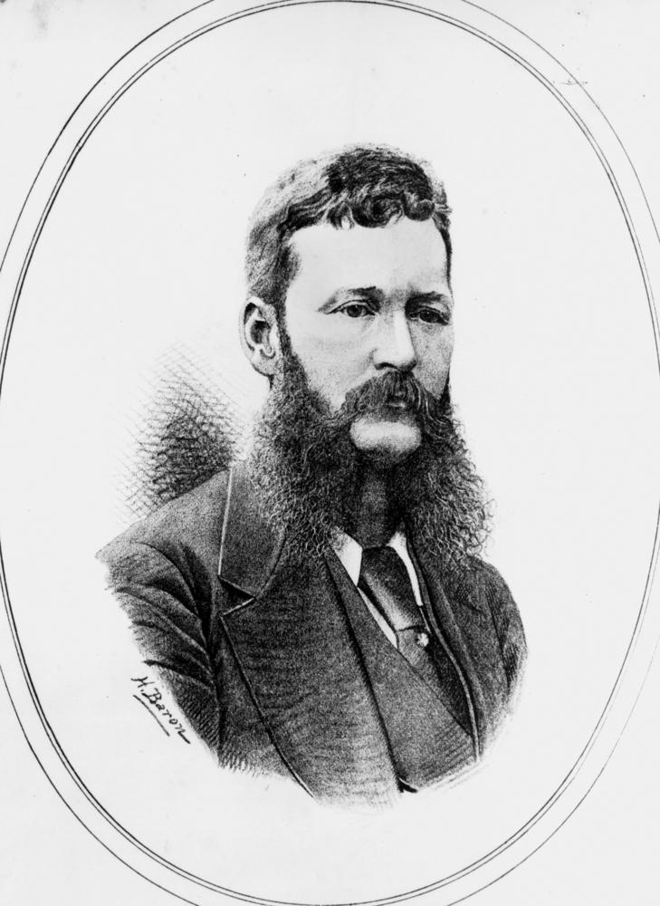 Boyd Dunlop Morehead. Stock and station agent and pastoral investor. b. 24 Aug. 1843 Sydney. NSW; s. Robert Archibald Alison, gen. mngr Scottish Aust. C.. and Helen Buchanan, nee Dunlop; m. (1) 4 June 1873 Lockersleigh NSW. Annabella Campbell Ranken; 1s. 7d.; (2) 3 April 1895 Brisb. Ethel Seymour; 1d. d. 30 Oct. 1905 Brisb. C. of E. MLA. Mitchell 4 Sept. 1871 - 30 Dec. 1880; MLC 31 Dec. 1880 - 3 Aug. 1883; MLA Balonne 5 Oct. 1883 - 11 April 1896; MLC 10 June 1896 - 30 Oct. 1905; cont. Fortitude Valley 1883. PMG and Govt representative in LC 17 Dec. 1880 - 3 Aug. 1883; Col. Sec. 13 June - 30 Nov. 1888; Chief Sec. and Col. Sec. 30 Nov. 1888 - 12 Aug. 1890; Member Roy. Com. Liquor Traffic, 1900. (Information taken from : C. B. Waterson, Biographical register of the Queensland Parliament, 2nd rev. ed., 2001).